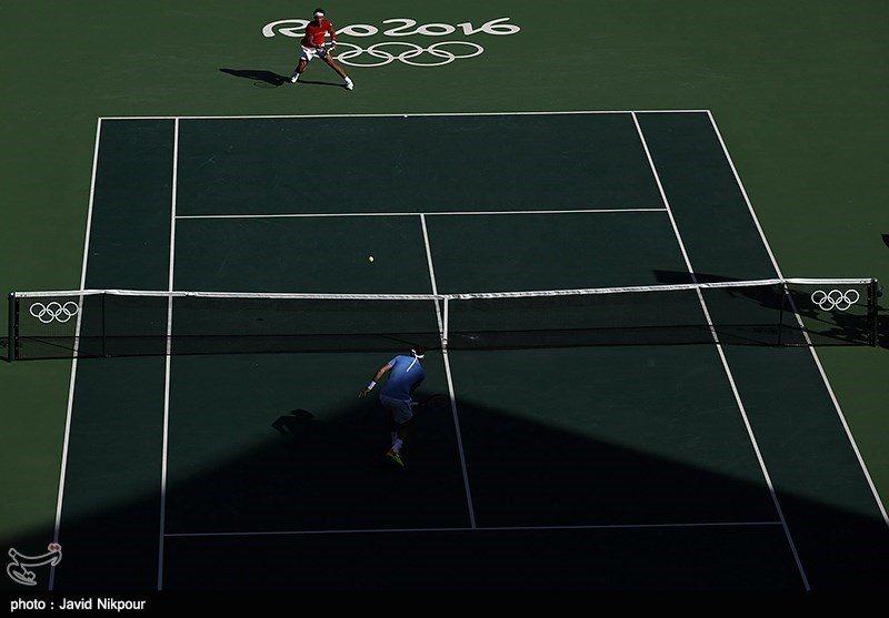 Tennis at the 2016 Summer Olympics